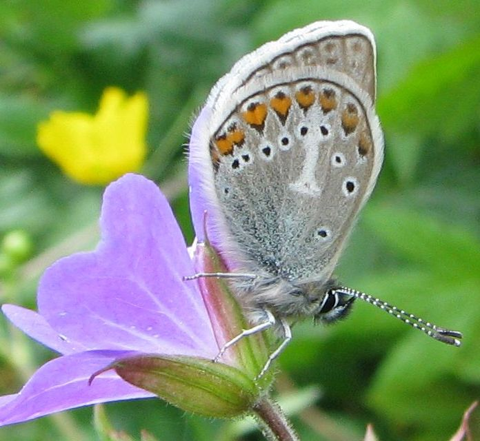 Geranium argus Aricia eumedon on the larvae's foodplant Geranium sylvaticum